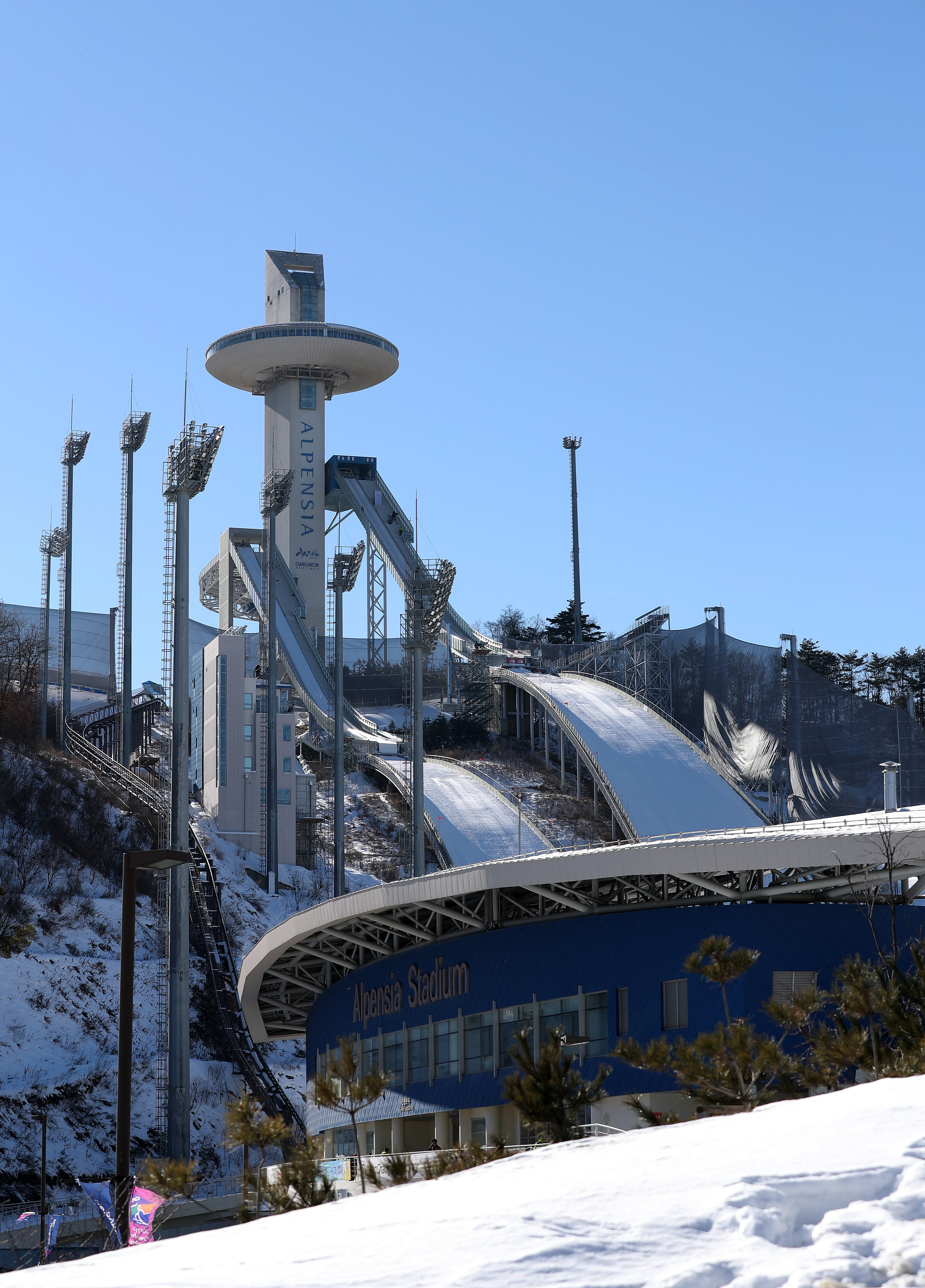 PyeongChang Alpensia February 2, 2017 Alpensia, Pyeongchang-gun, Gangwon-do Ministry of Culture, Sports and Tourism Korean Culture and Information Service ( Official Photographer : Jeon Han This official Republic of Korea photograph is being made available only for publication by news organizations and/or for personal printing by the subject(s) of the photograph. The photograph may not be manipulated in any way. Also, it may not be used in any type of commercial, advertisement, product or promotion that in any way suggests approval or endorsement from the government of the Republic of Korea. 알펜시아 2017-02-02 평창군 문화체육관광부 해외문화홍보원 코리아넷 전한